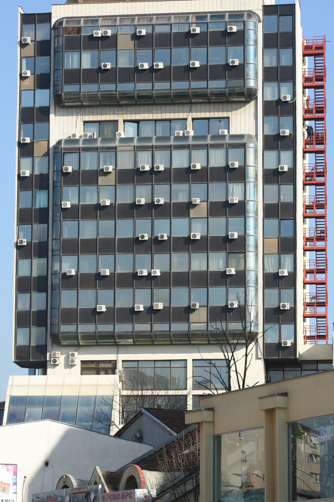 The main building of Kosovo Energy Corporation (KEK) KEK is currently the sole power corporation in the Republic of Kosovo.